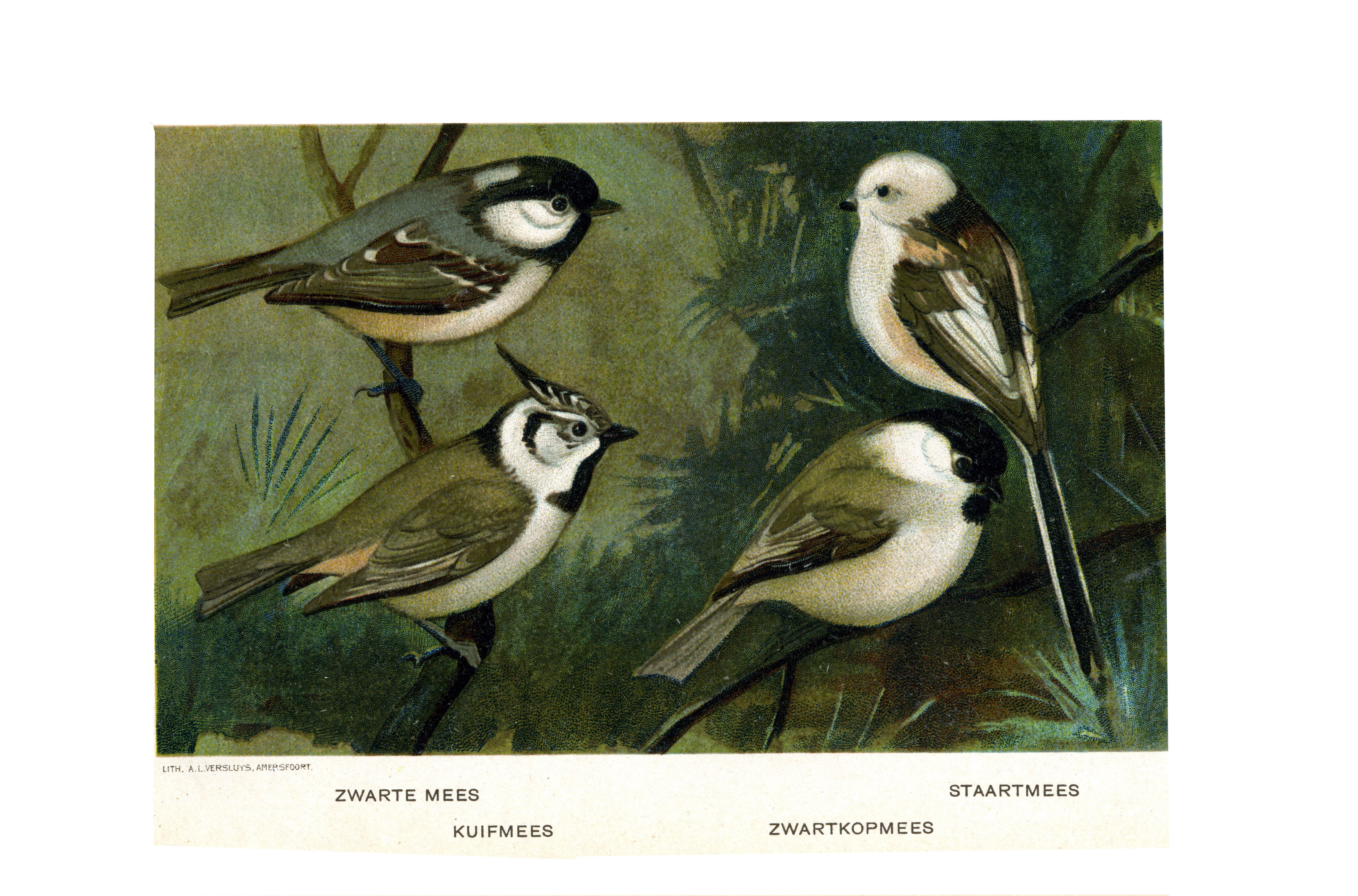 Tits (birds)